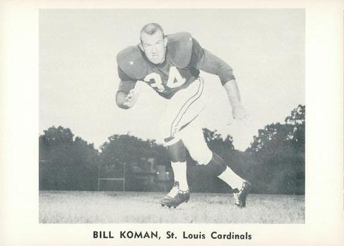 A promotional image of St. Louis Cardinals American football player Bill Koman.